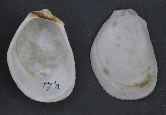 Limaria tuberculata (Olivi, 1792), Limidae, Bivalvia, Mollusca, Naturalis Biodiversity Center - RMNH.MOL.319295